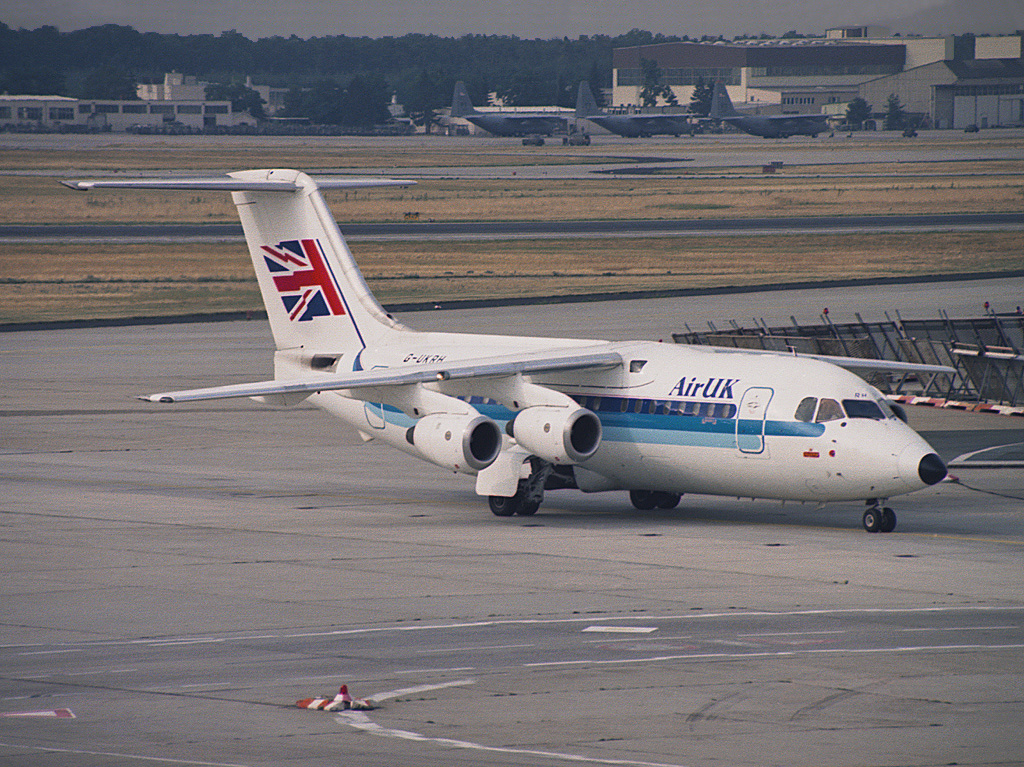 Air UK British Aerospace BAe-146-200 G-UKRH at Frankfurt Airport